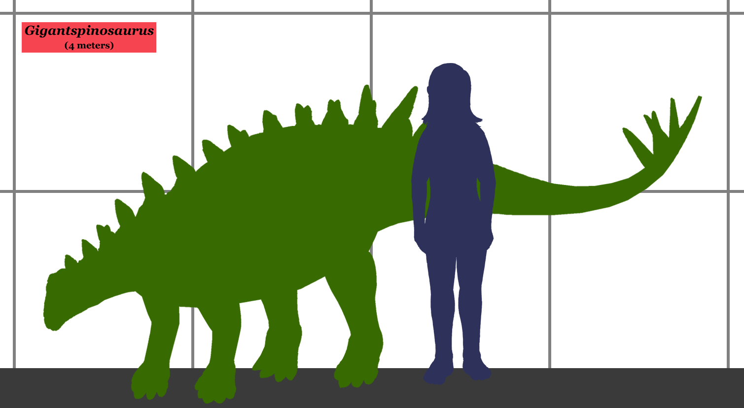 Size comparison between the stegosaurian dinosaur Gigantspinosaurus (4 meters) and a human.